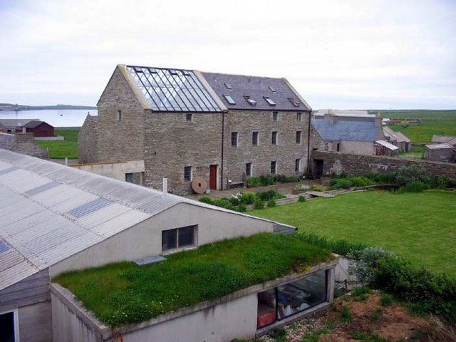 Old mill converted into a holiday home Pierowall, Westray, Orkney